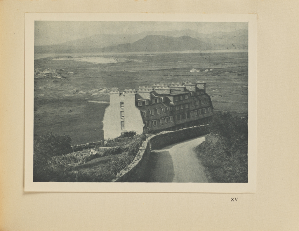 The St. David's Hotel; Alvin Langdon Coburn (British, born America, 1882 - 1966); Harlech, Wales; 1920; Mezzogravure; 11.9 × 15.9 cm (4 11/16 × 6 1/4 in.); 84.XO.1253.15 from the The J. Paul Getty Museum